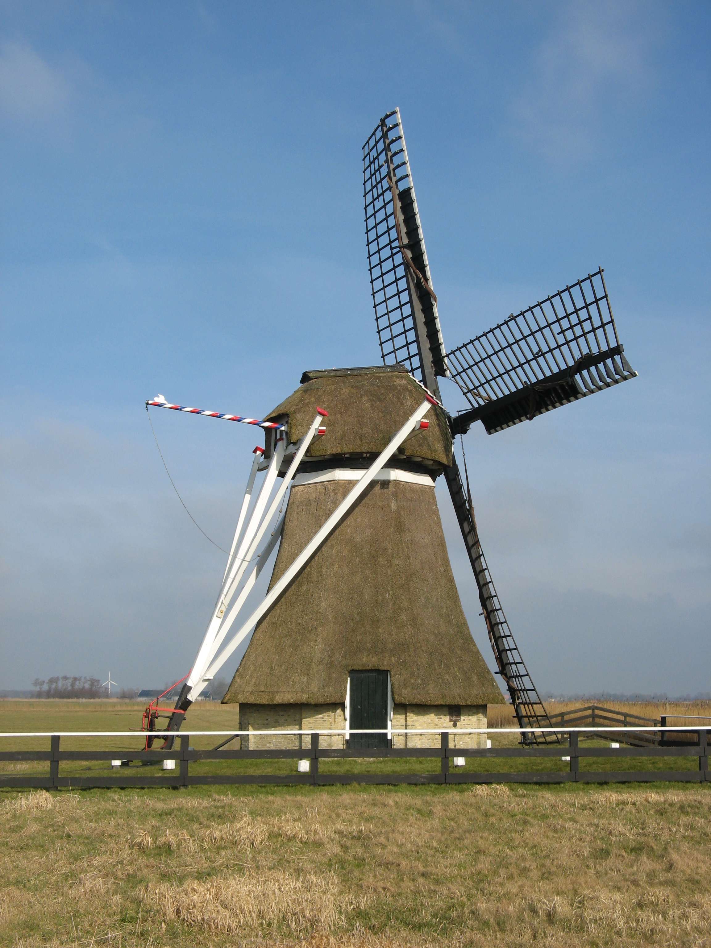 Drainage windmill De Rentmeester near Menaam, the Netherlands